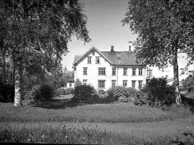 Photo of Meyergården hotell, Mo i Rana, Nordland, Norway